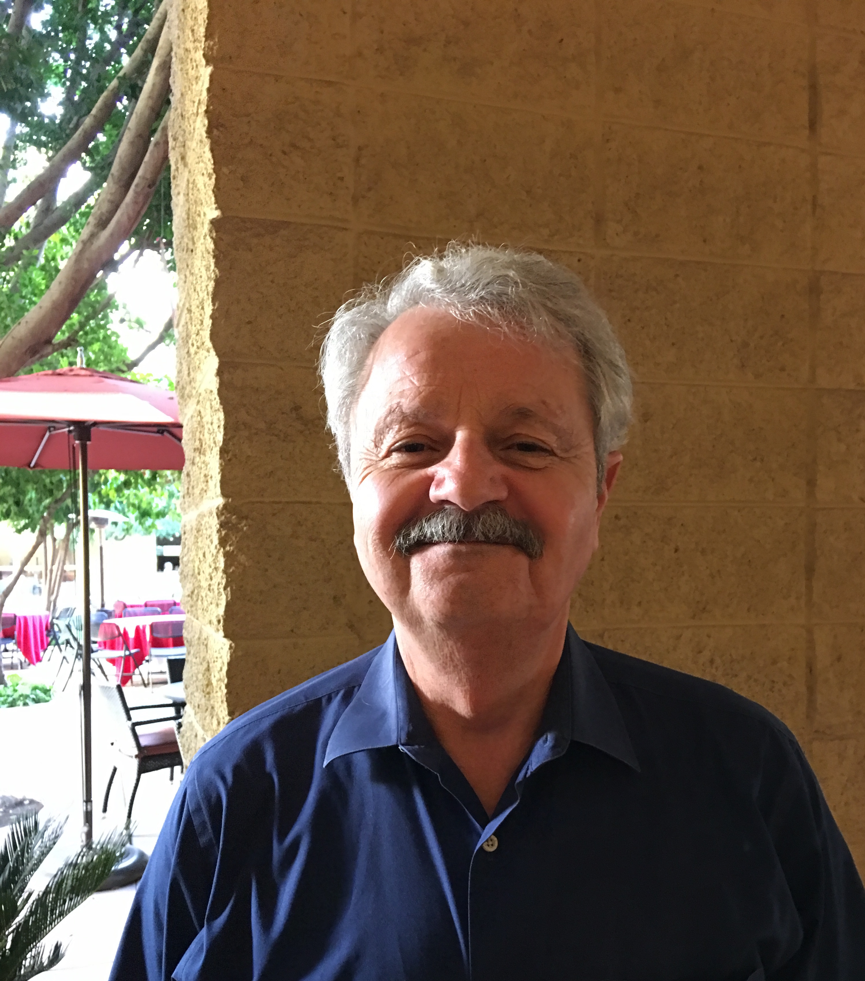 Charles Falco, physicist and art theorist, photographed March 2019 at ASU SciAPP conference, where he gave a talk about his collaboration with artist David Hockney